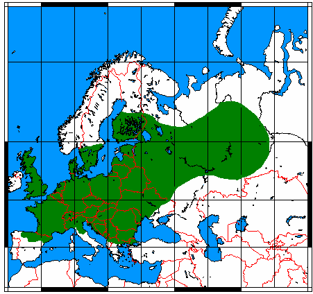 Range map of European mole (Talpa europaea), made by me with help of Map depending on the range map at IUCN red list.